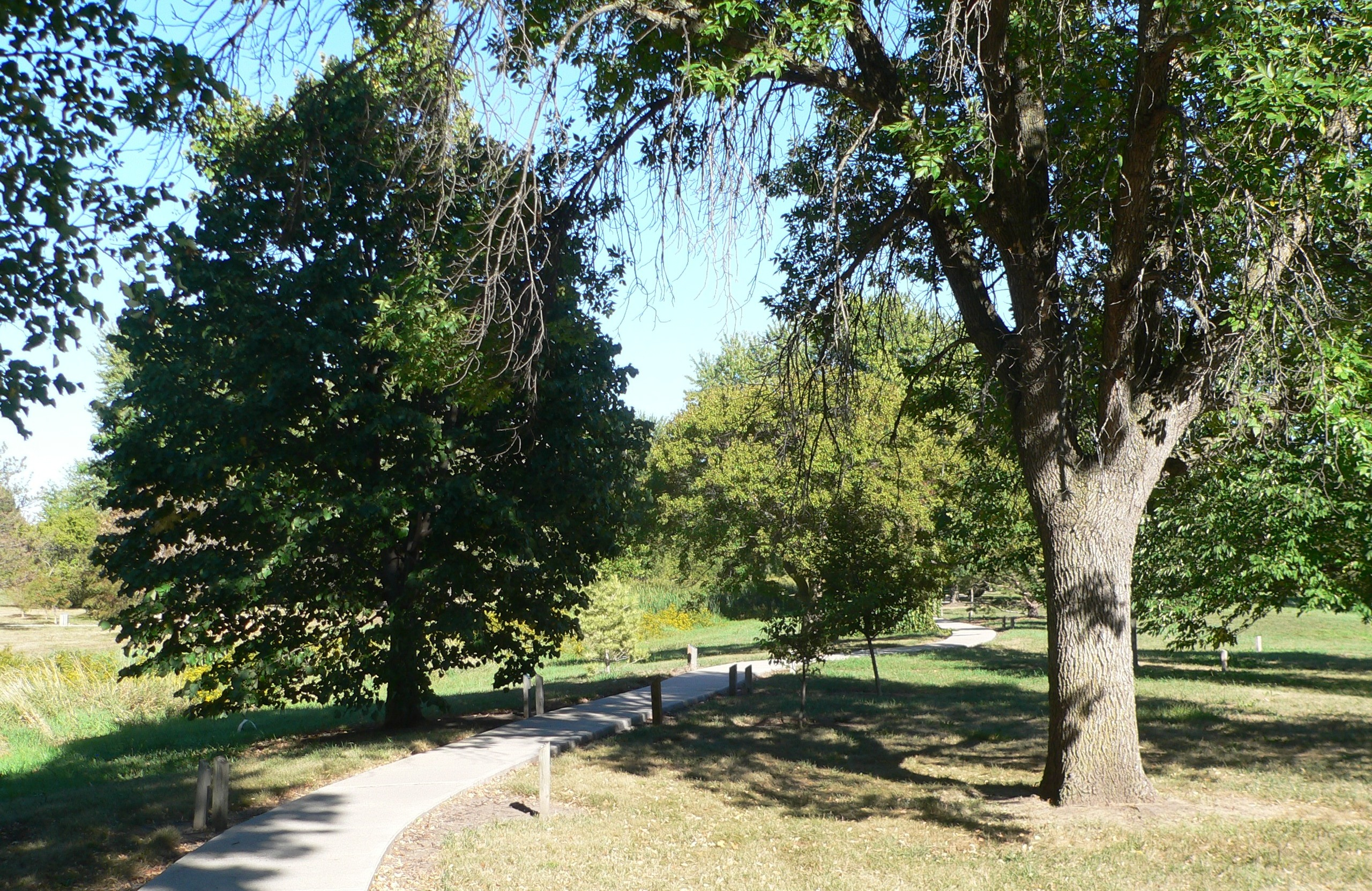 Path through arboretum in Gilman Park, Pierce, Nebraska.